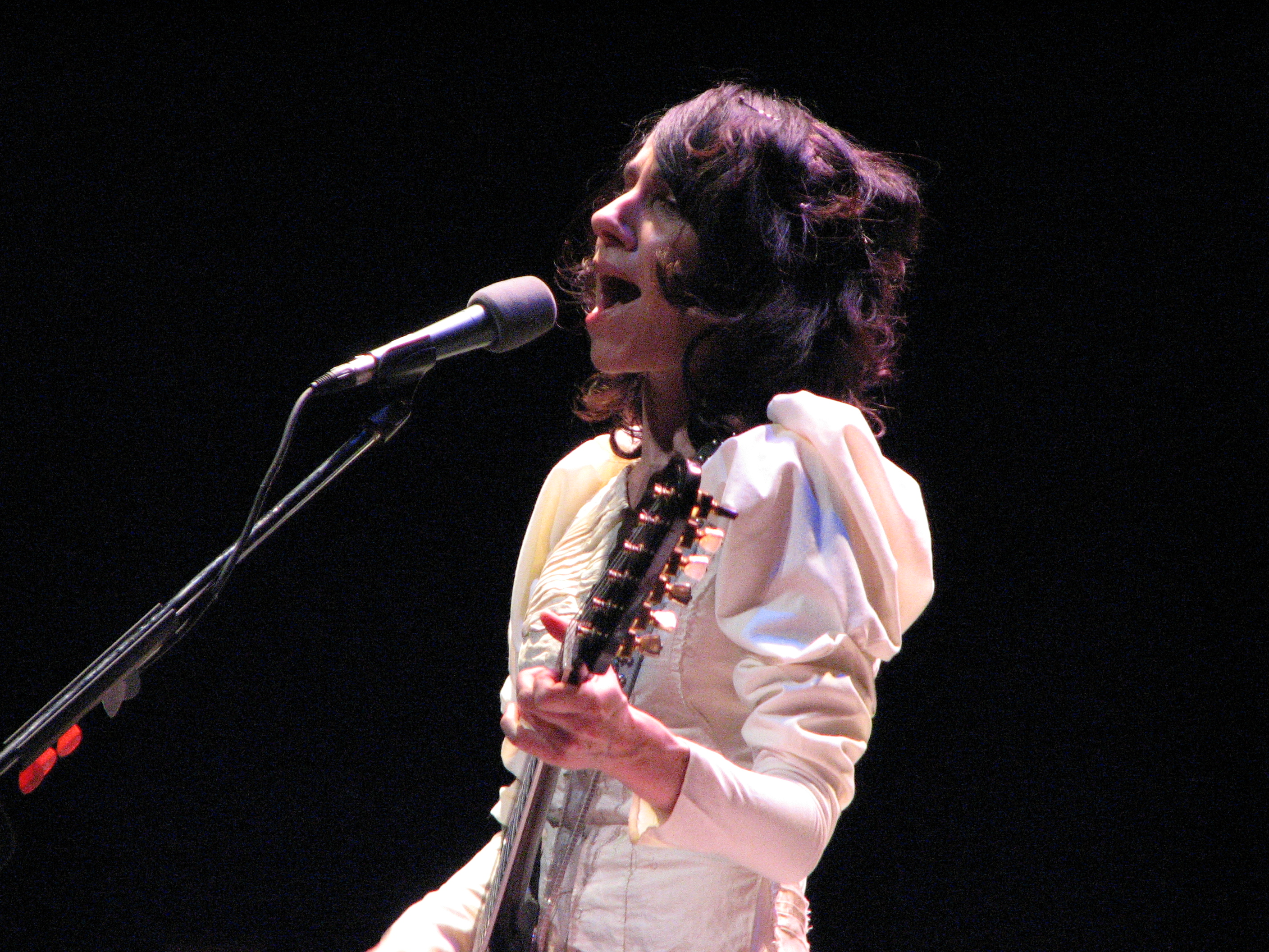 PJ Harvey performing live in Athens, Greece.